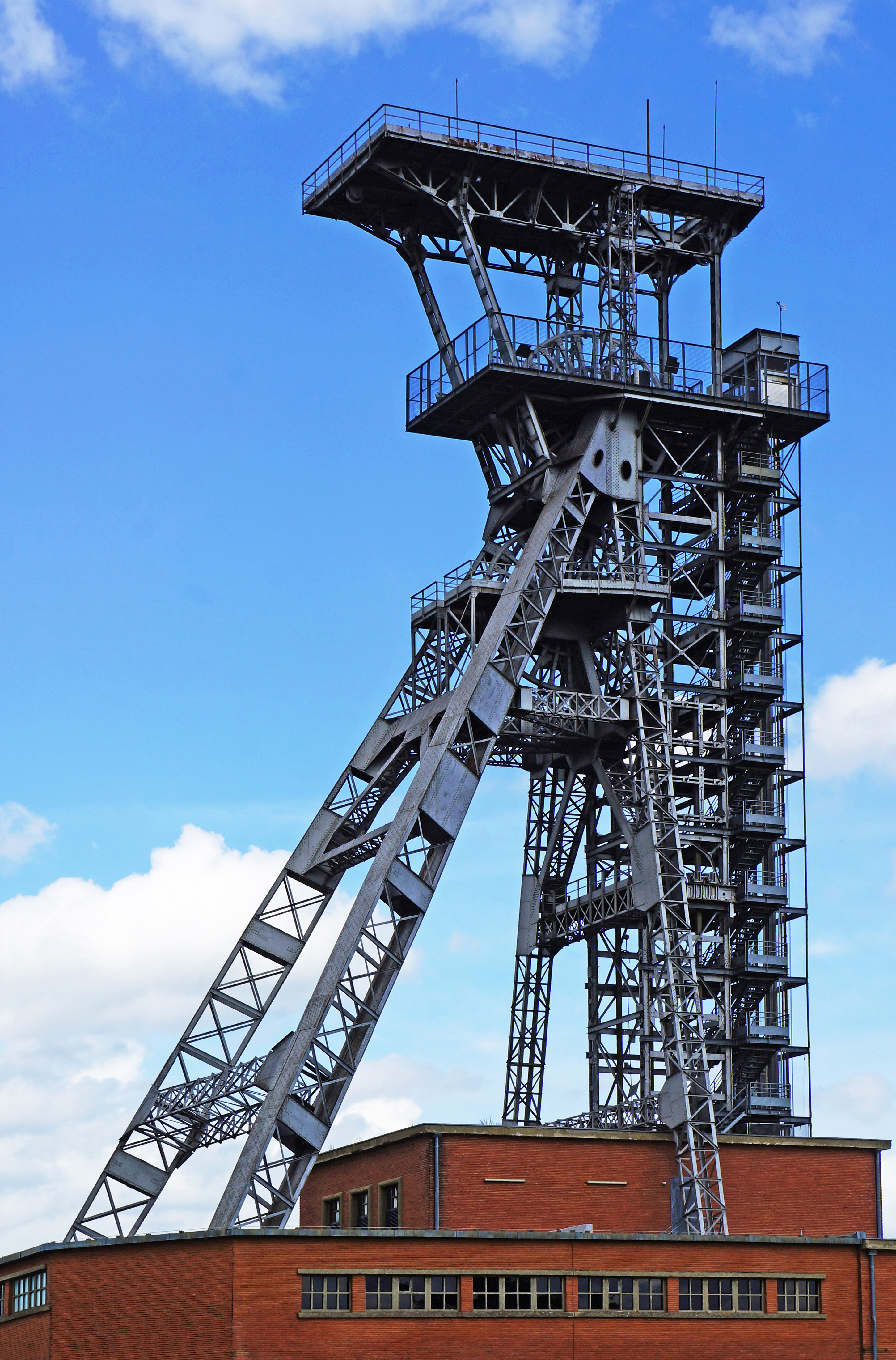 Coal mine of Frameries.